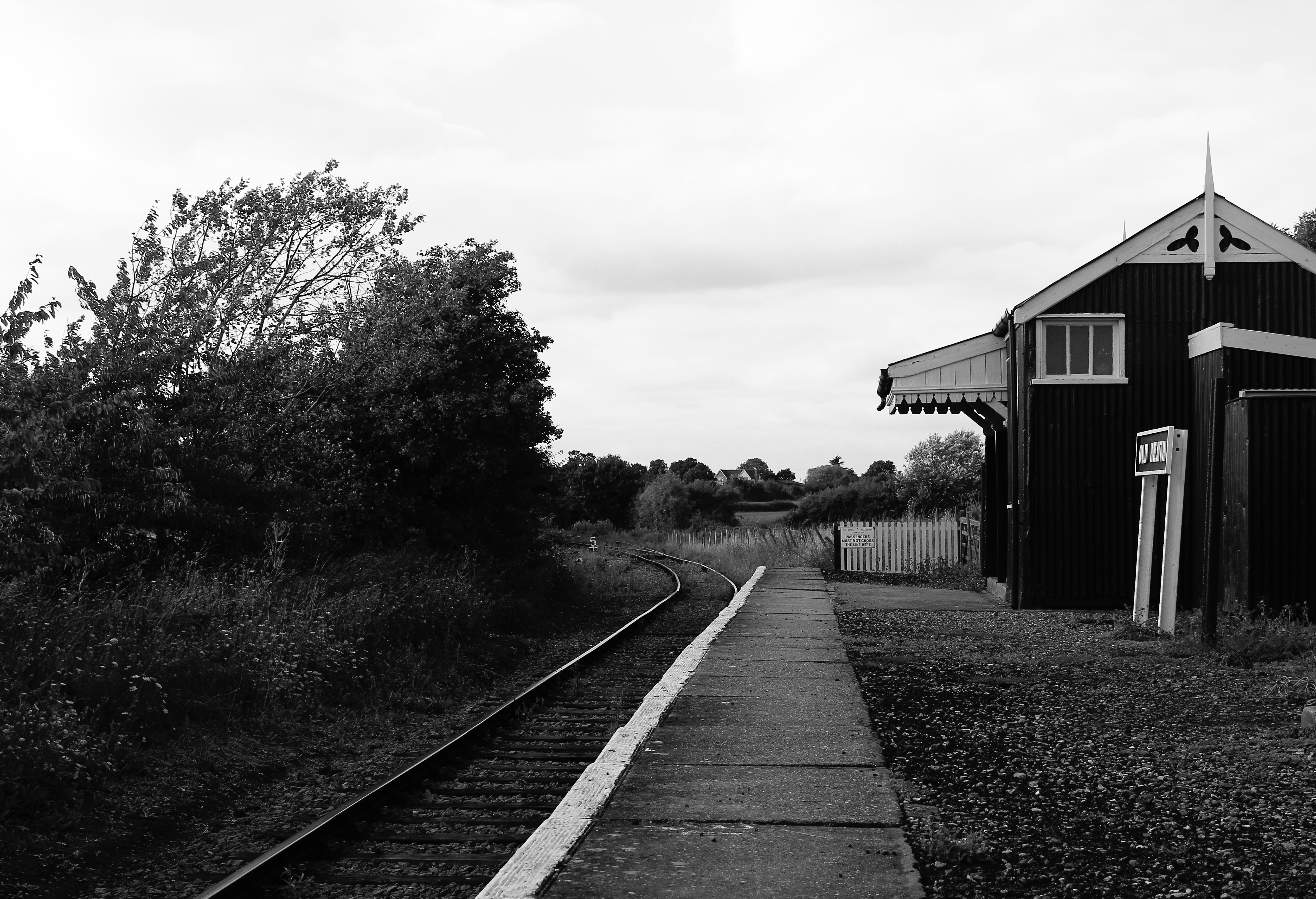 old heath in black and white.